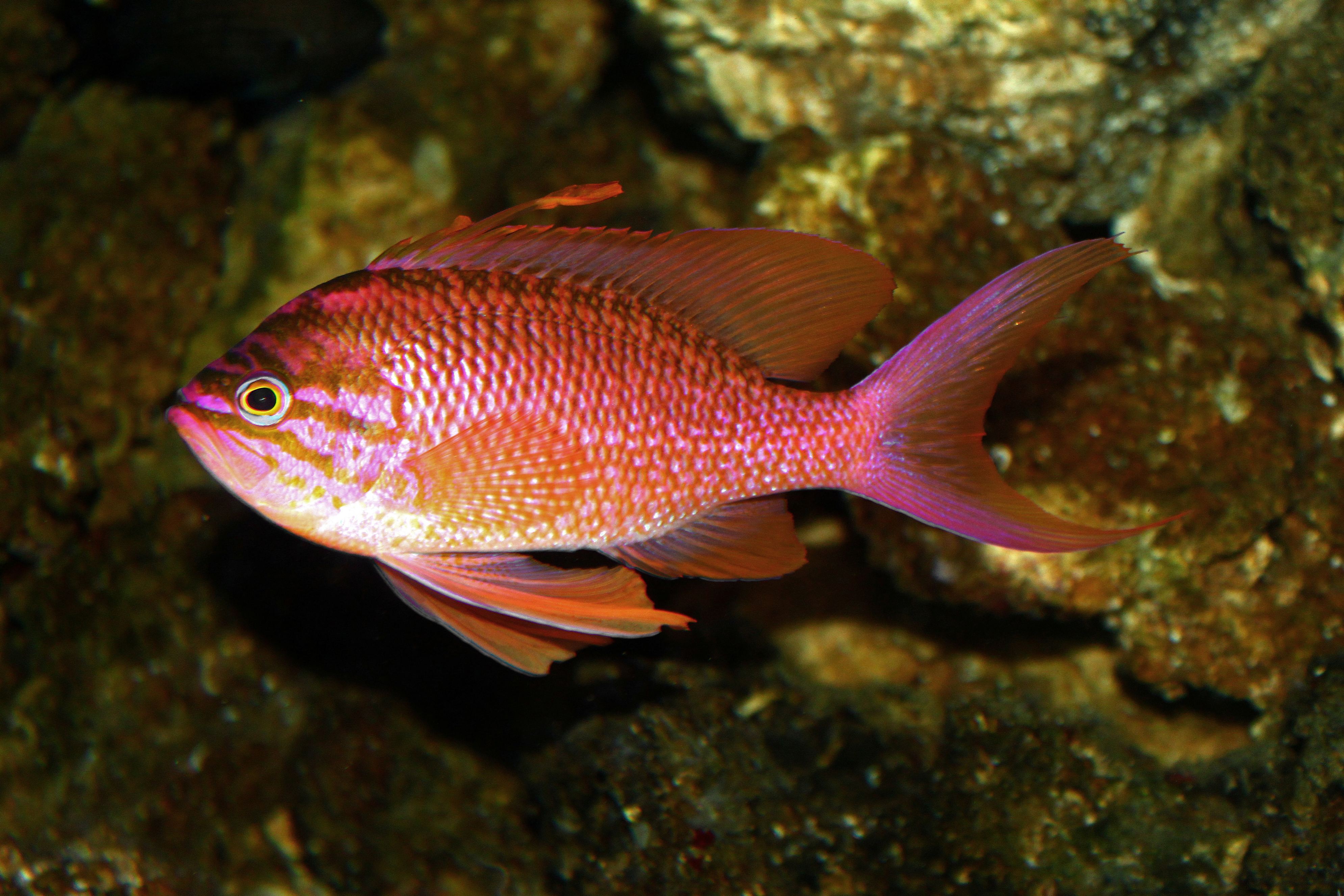 Anthias anthias, Serranidae, Swallowtail Seaperch; Staatliches Museum für Naturkunde Karlsruhe, Germany.